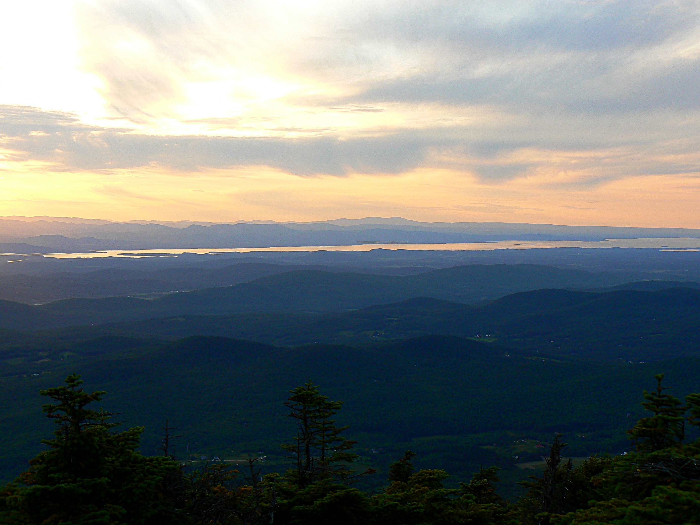 Lake Champlain, as seen from Vermont's Mount Abraham.